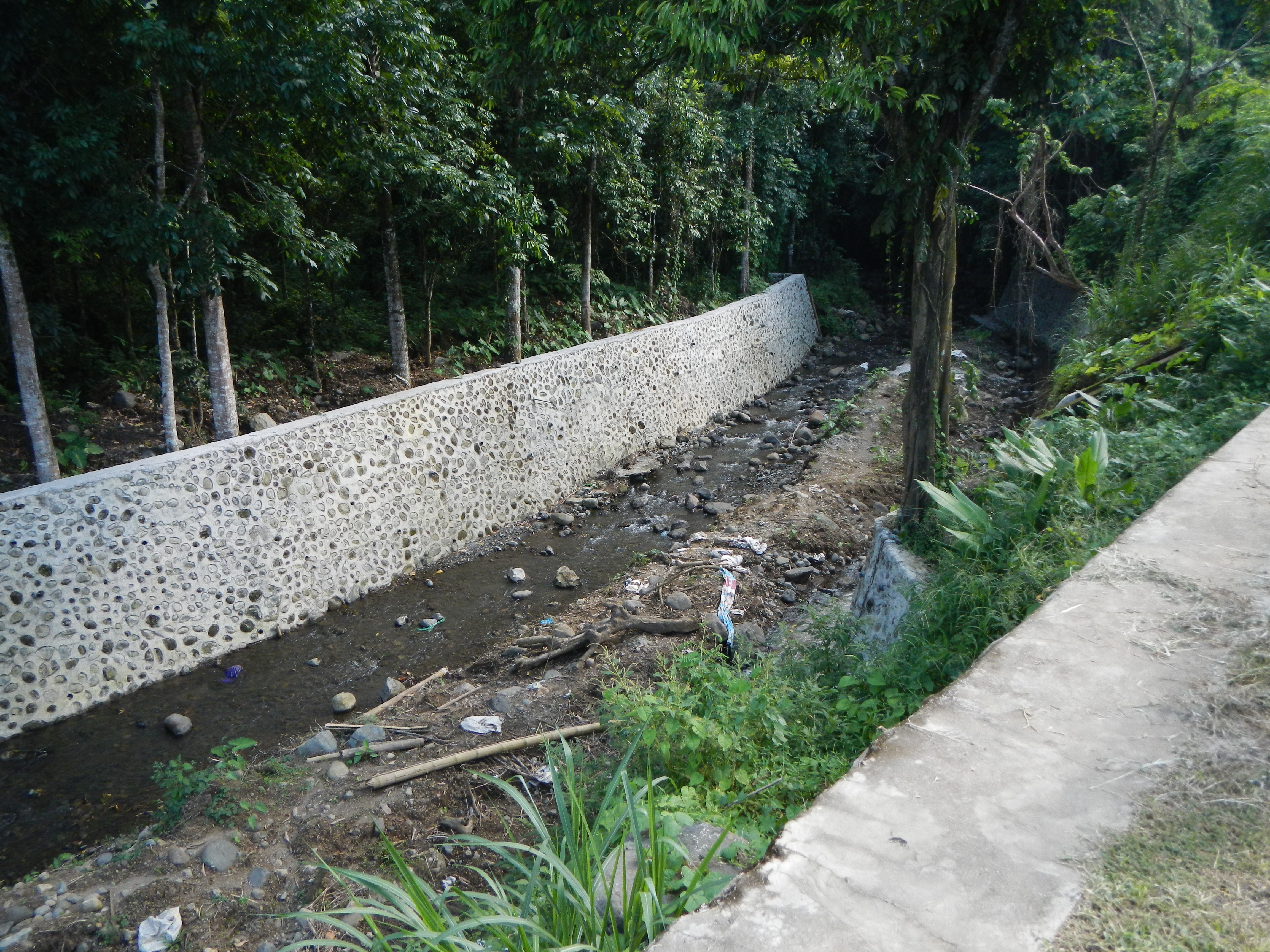 UploadWizard photos --- (general description) of (landmarks, heritage, culture, comprehensive, photography) of – Welcome Arch (including the downtown, shoe factories) of Liliw, Laguna [1] - located at Barangay Laguan with the River Revetment [2] (In stream restoration, river engineering or coastal management, revetments are sloping structures placed on banks or cliffs in such a way as to absorb the energy of incoming water) [3] built to preserve the existing uses of the shoreline and to protect the slope, as defense against erosion) along Oples River upstream and downstream Km 99 + 620, Saint Francis of Assisi statue, Batis ng Liliw Resort, Liliw Bridge Km 100 + 460 Barangay Oples [4] Water swirls in a downstream stretch of a Liliw, Laguna river.[5] [6] ---- Liliw, Laguna [7] (fourth class municipality in the province of Laguna,[8] Philippines subdivided into 33 barangays, founded in 1571 by Gat Tayaw, nestled at the foot of Mount Banahaw,[9] latest census, population of 33,851 total land area of 88.5 sq. miles [10] Coordinates: 14°7'15"N 121°27'40"E ‘Tsinelas’: Liliw, Laguna’s pride History of Liliw [11] Capilla de Buenaventura, Saint John the Baptist Parish Church of Liliw [12] Geographical location: Laguna, Region 4, Philippines, Asia Ggeographical coordinates: 14° 7' 55" North, 121° 26' 8" East).